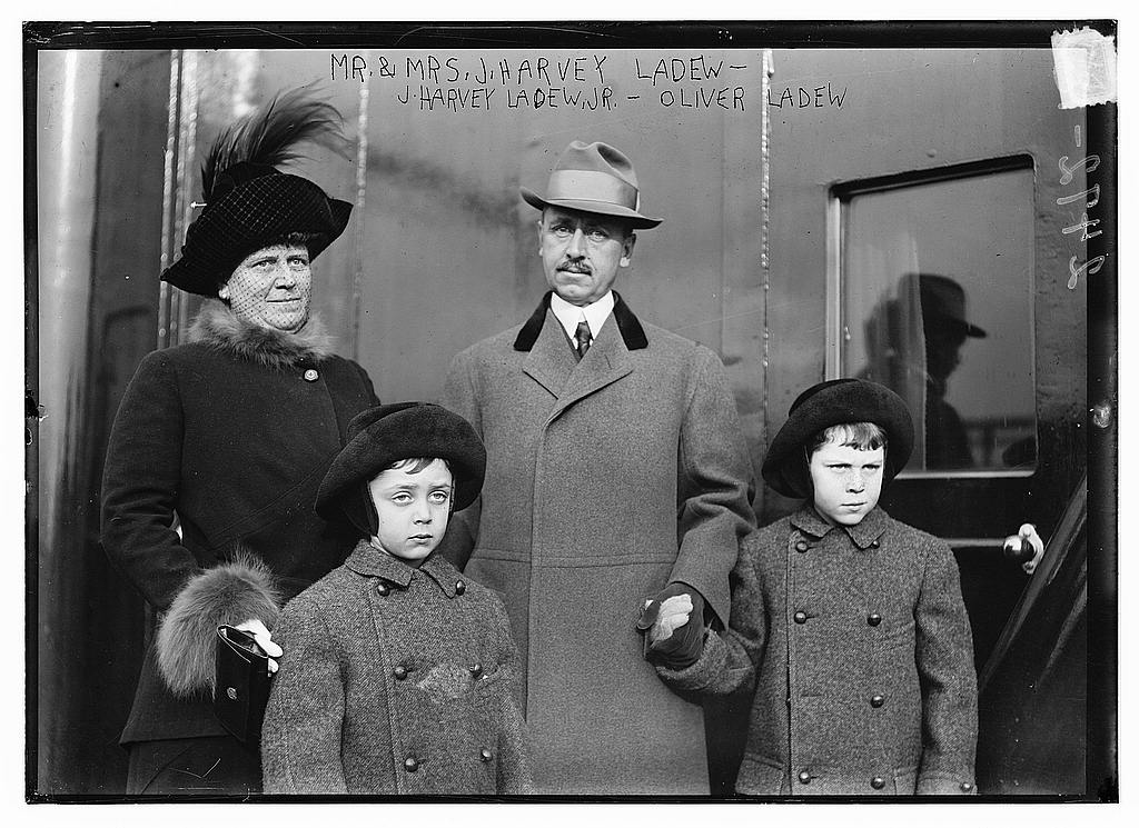 Bain News Service,, publisher. Mr. & Mrs. J. Harvey Ladew, J.H. Ladew, Jr., and Oliver Ladew [between 1910 and 1915] 1 negative : glass ; 5 x 7 in. or smaller. Notes: Title from unverified data provided by the Bain News Service on the negatives or caption cards. Forms part of: George Grantham Bain Collection (Library of Congress). Format: Glass negatives. Repository: Library of Congress, Prints and Photographs Division, Washington, D.C. 20540 USA, General information about the Bain Collection is available at Persistent URL: Call Number: LC-B2- 2472-13